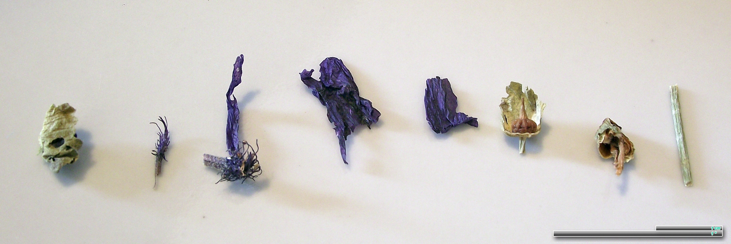 dried Malva sylvestris is a species of the Mallow genus Malva in the family of Malvaceae Flower